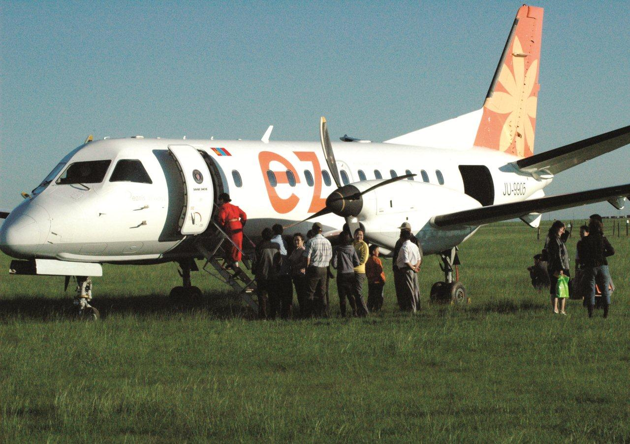 Kharkhorin flight take-off